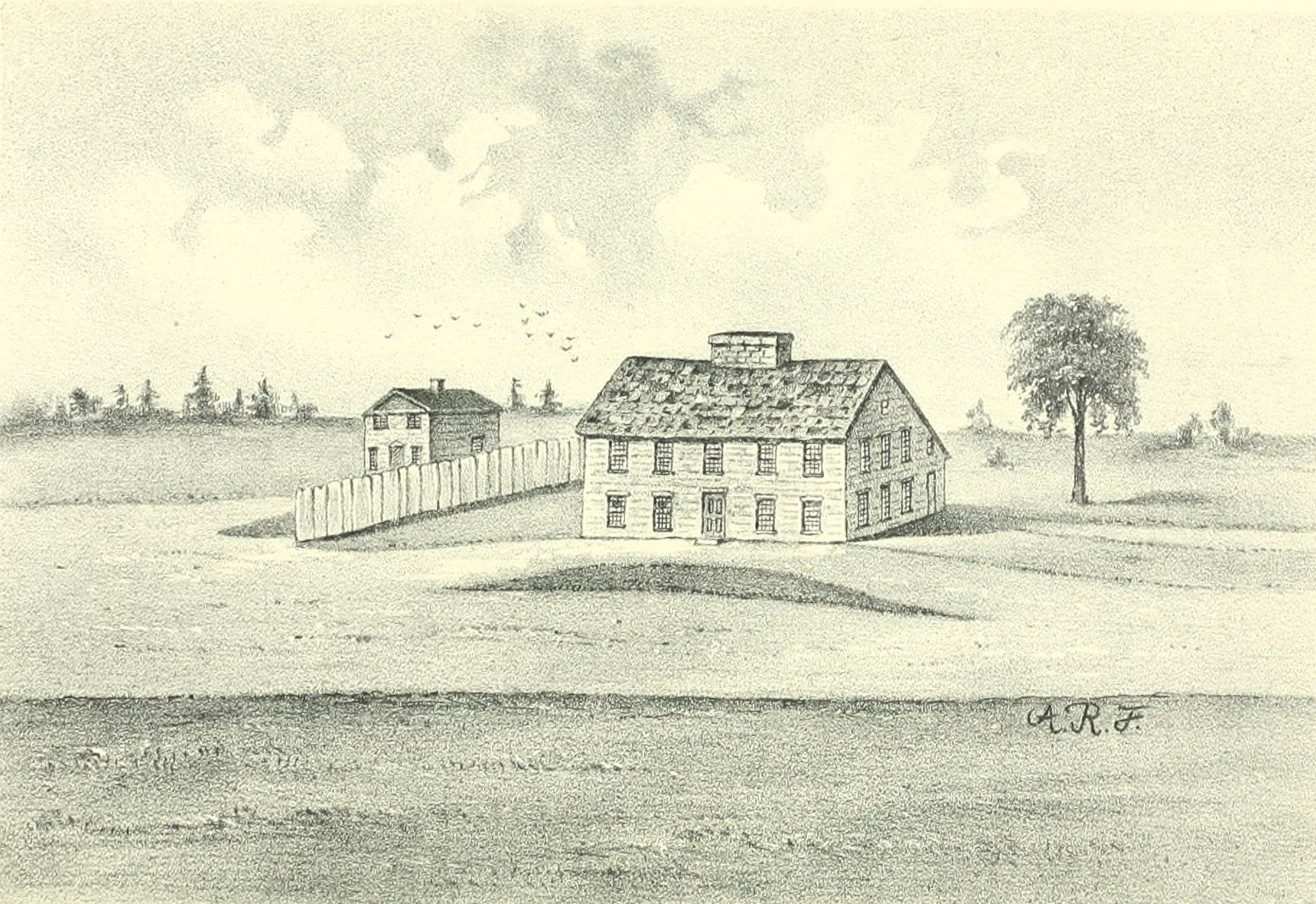 The Ames tavern in Dedham, Massachusetts, was owned by Nathaniel Ames from 1735 until his death, and thereafter by his widow. It was demolished in 1817. This image, based on the memory of Dedham's oldest inhabitant in 1891, was drawn by Annie Richards Fisher Thayer.